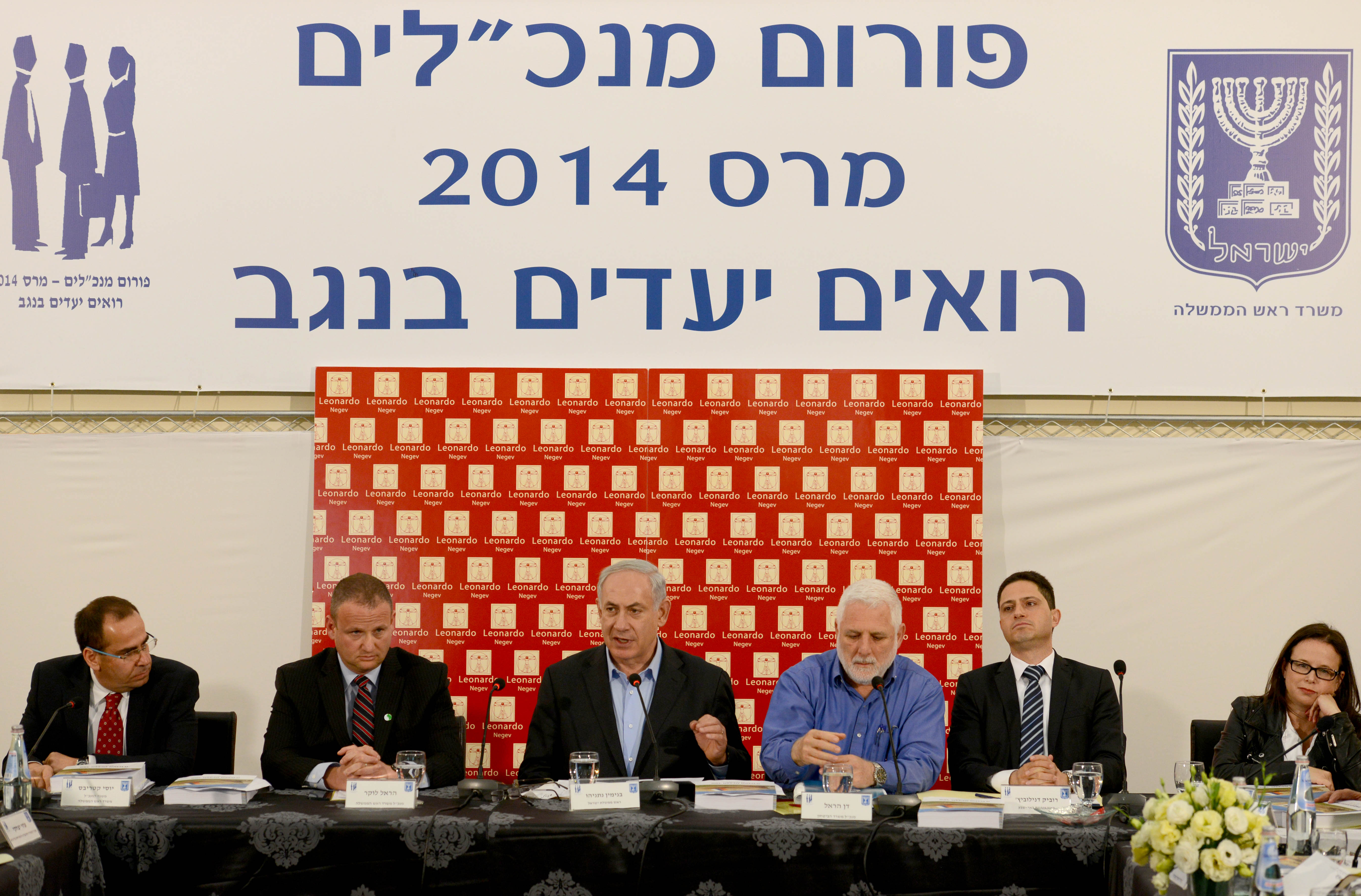 Prime Minister Benjamin Netanyahu (third from left) moderates during the Forum of Directors General with Director General of the Prime Minister's Office Harel Locker (second from right), Deputy Director General of the Prime Minister's Office Yossi Katribas (far left), Director General of the Ministry of Defense Dan Harel (third from right), Director General of the Ministry of Finance Yael Andoran (far right) and Be'er Sheva Mayor Ruvik Danilovich (second from right), Be'er Sheva.